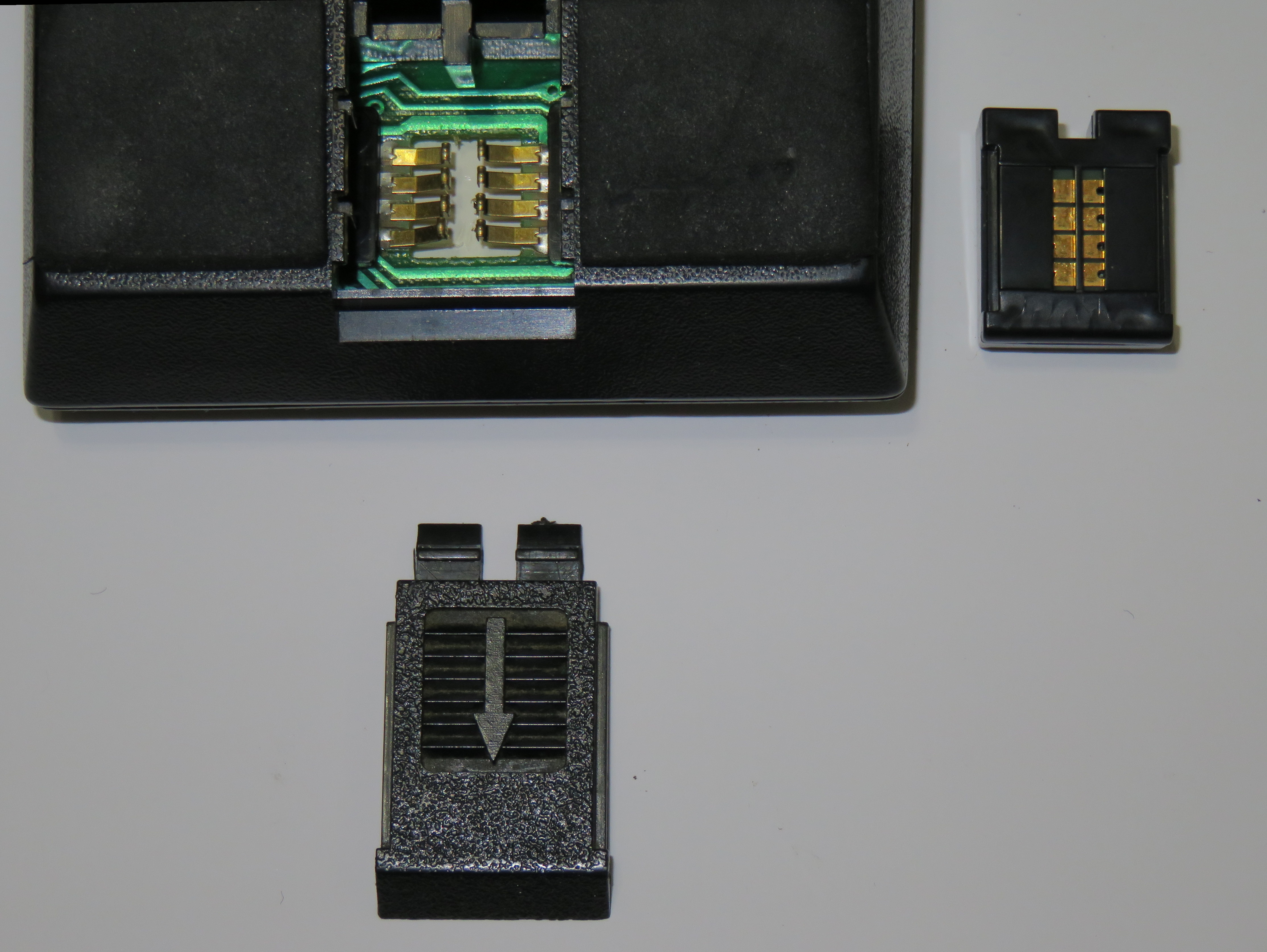 View of slot for Master Library Module into a TI-59 Texas Instruments Programmable Calculator.